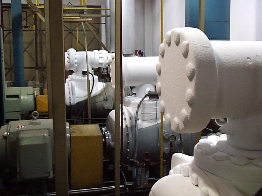 HOWDEN Screw compressors Low Stage NH3